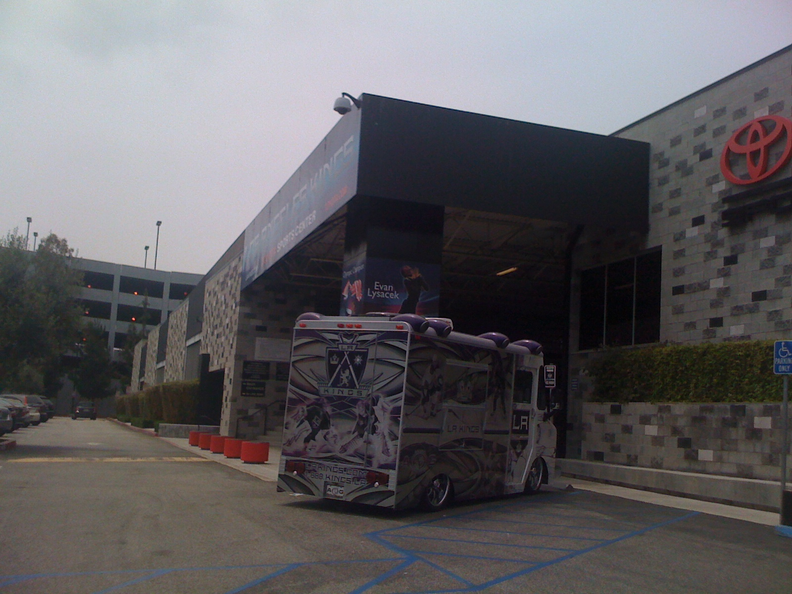 Image of Toyota Sports Center exterior